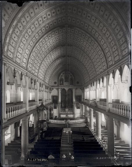 Title: R.C. Cathedral Creator: Brother Bertram Subjects: Honolulu ; Churches ; Buildings ; People Island: Oahu Location: Honolulu, HI